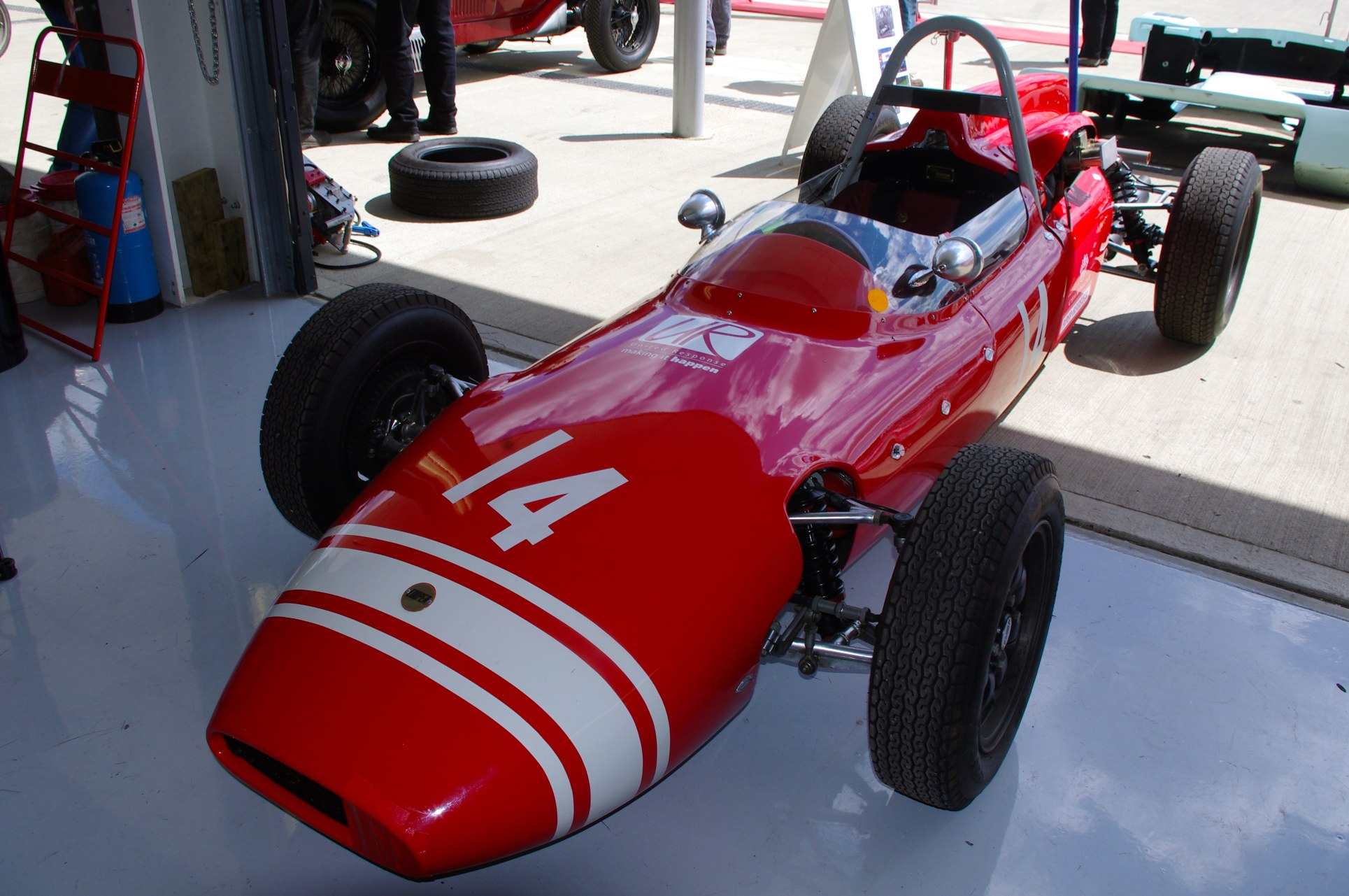 Silverstone Classic 2011